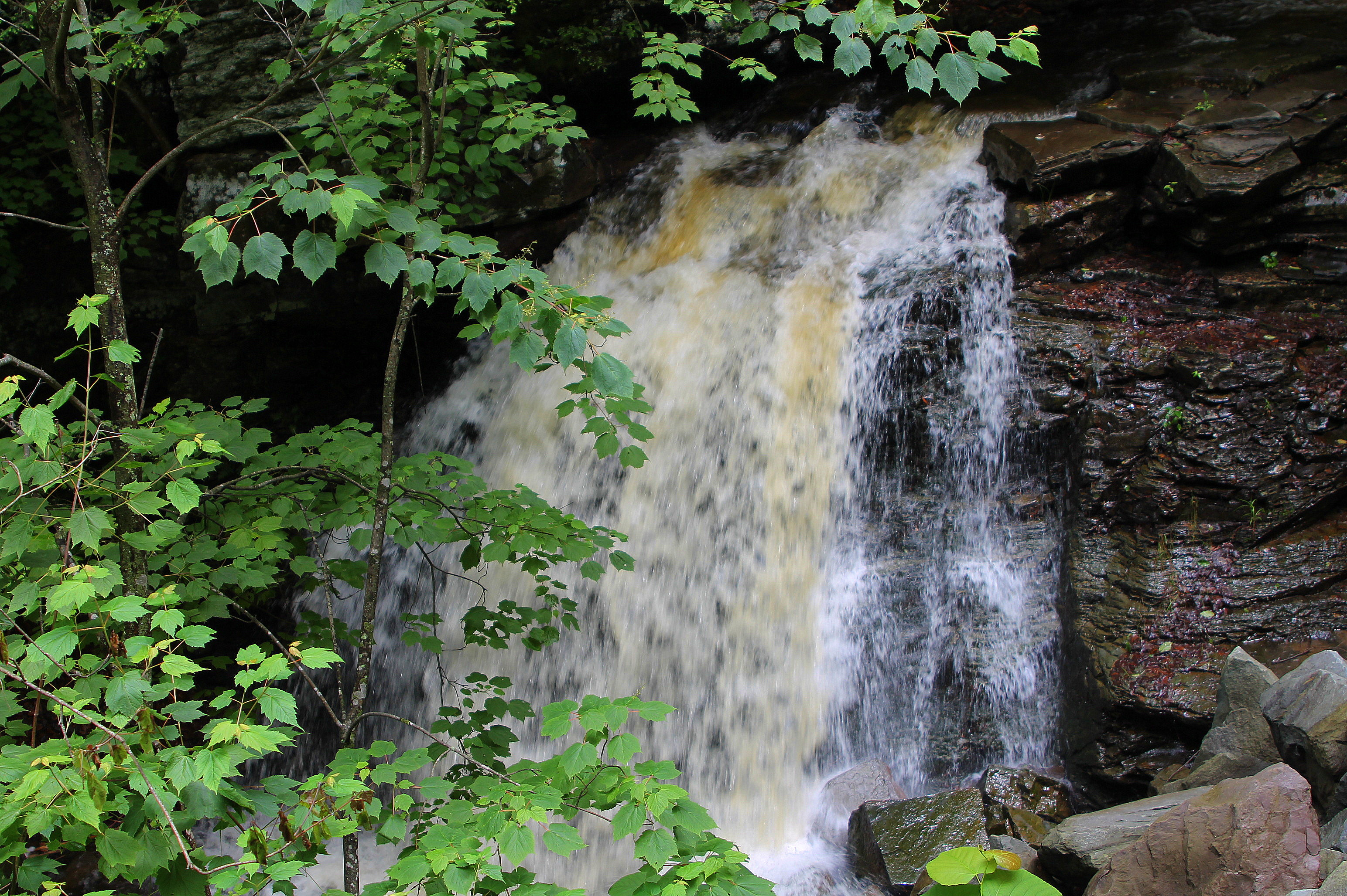 Waterfall on Big Run, Sullivan County, PA